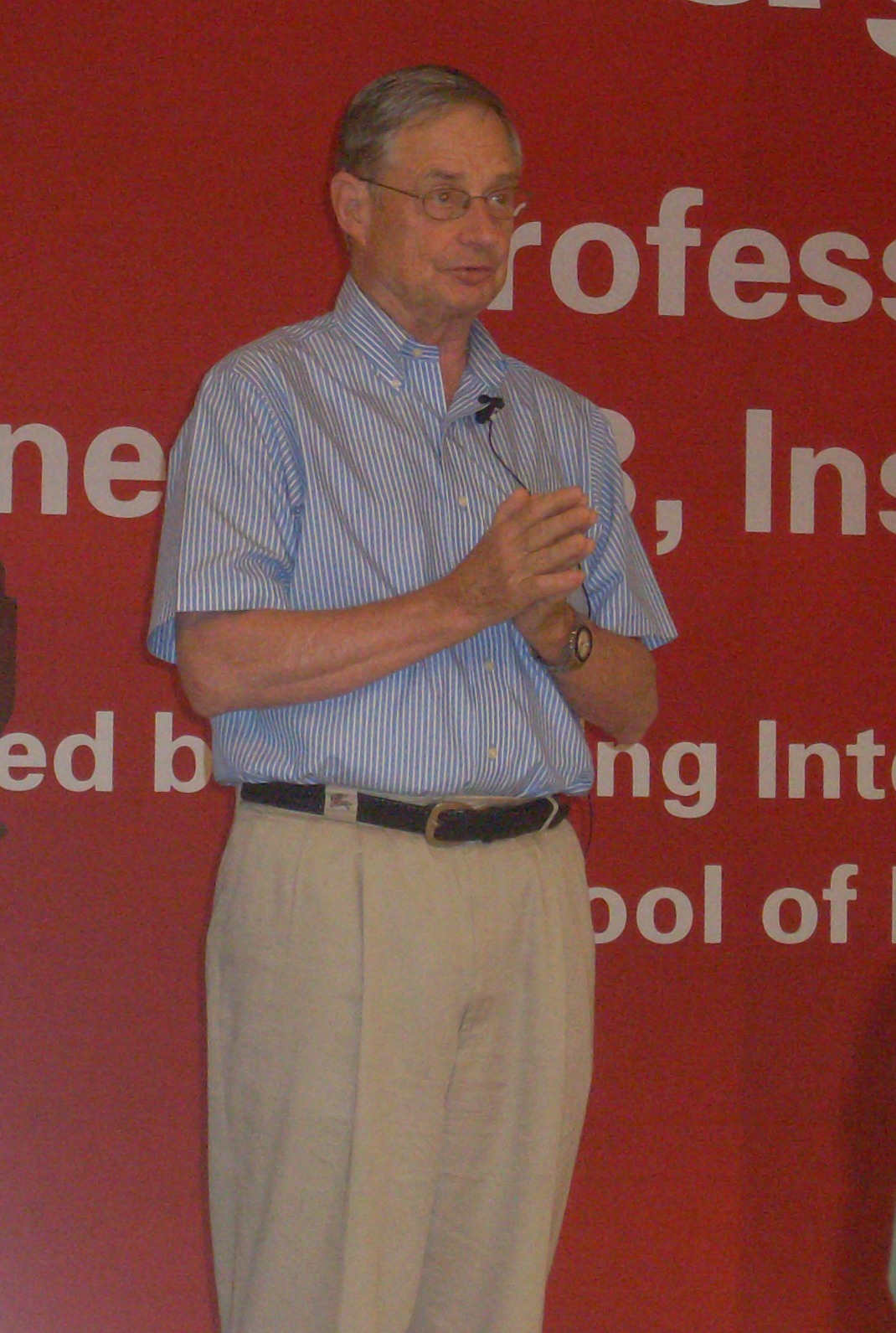 Prof Philip Griffiths at Peking University, Beijing, China